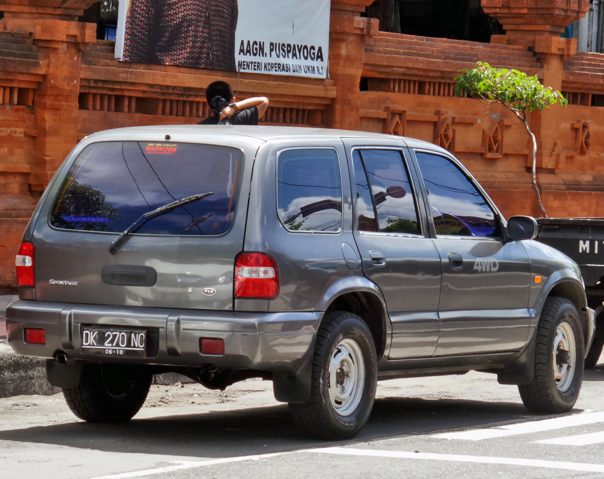 The first-generation Kia Sportage. Kia Sportage generasi pertama.